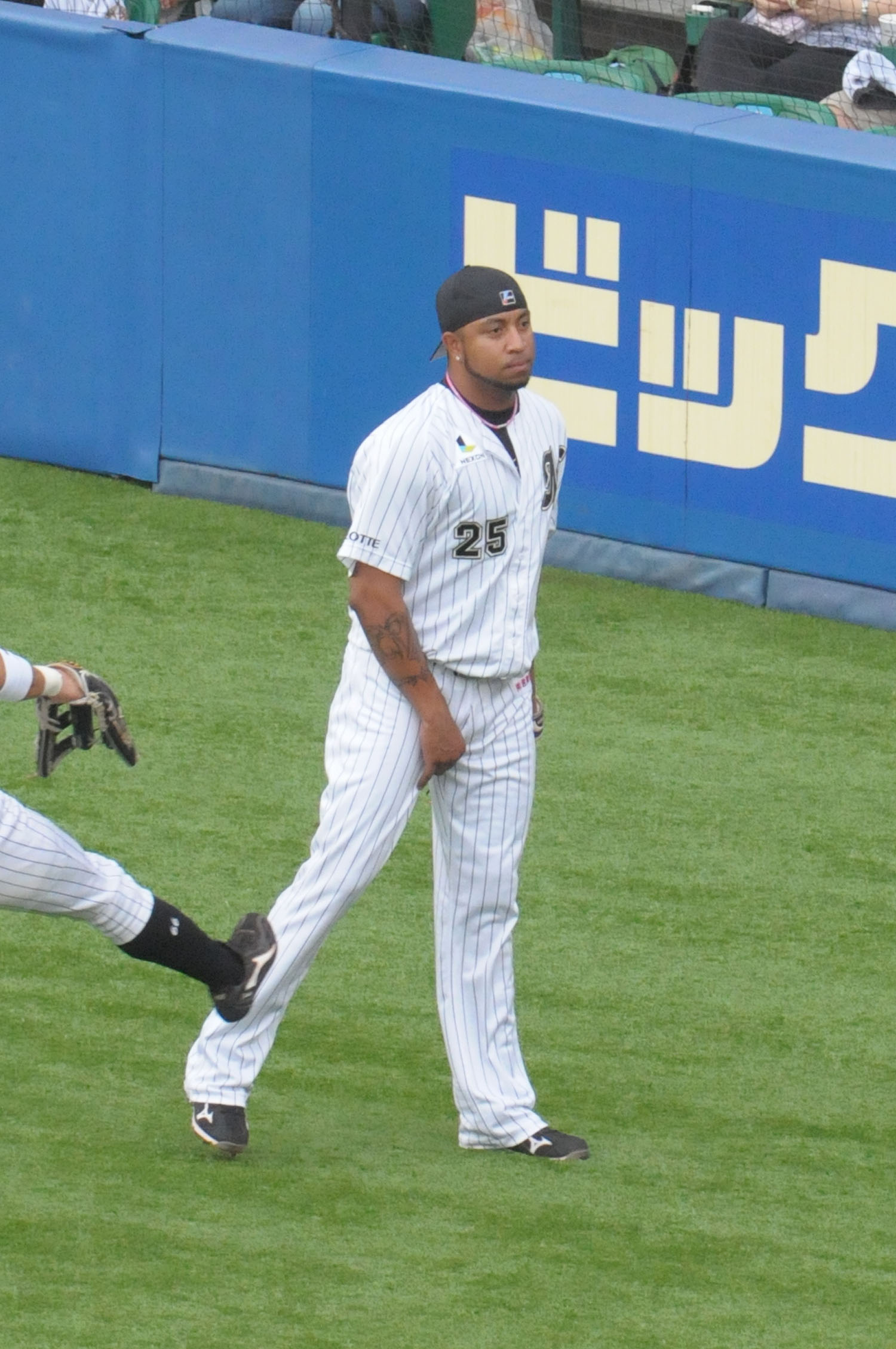 José Castillo, infielder of the Chiba Lotte Marines, at Chiba Marine Stadium.